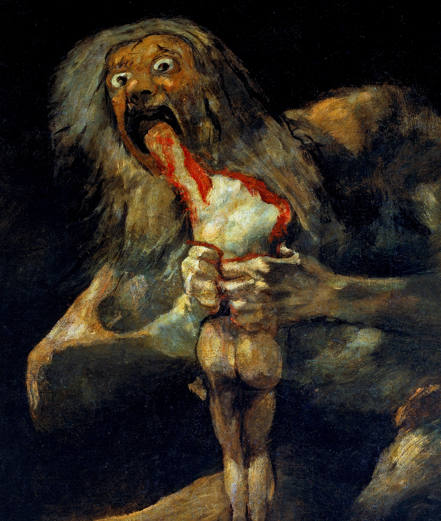 Derived from File:Francisco de Goya, Saturno devorando a su hijo (1819-1823).jpg